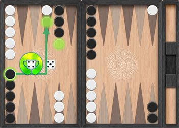 Backgammon variation setup.